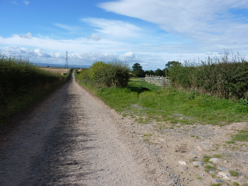 Track to Horn Cottage, and footpath to Uckington, near to Uppington, Shropshire, Great Britain. The track goes straight on; the footpath goes through the gateway on the right.